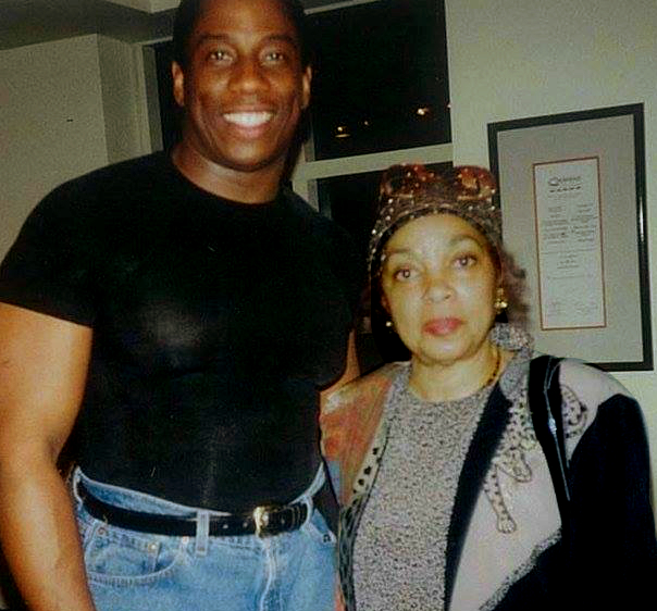 In 1998, American opera star, civil rights activist and environmental activist Stacey Robinson (left) poses with actress and activist Ruby Dee at the Cross Road Theater's opening night party of Paul Robeson -- All American. Robinson was the lead in this production. Dee encouraged Robinson to promote activist causes in addition to his career as an opera singer and actor. (Courtesy of photographer Mary Biggs; modifications (cropping, tone) by Tom Sulcer. Exact date is approximate.)